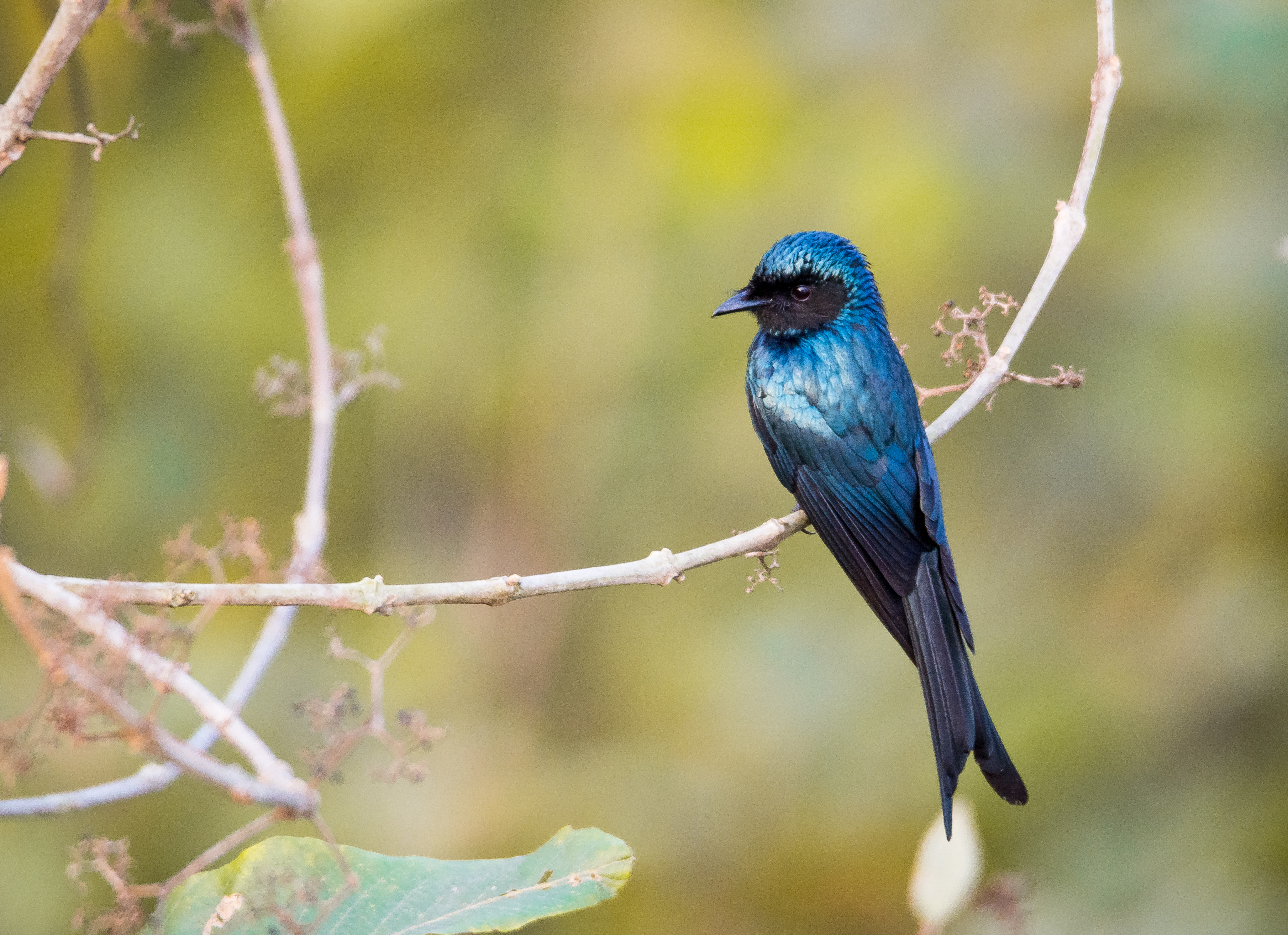 Bronzed drongo (Dicrurus aeneus)